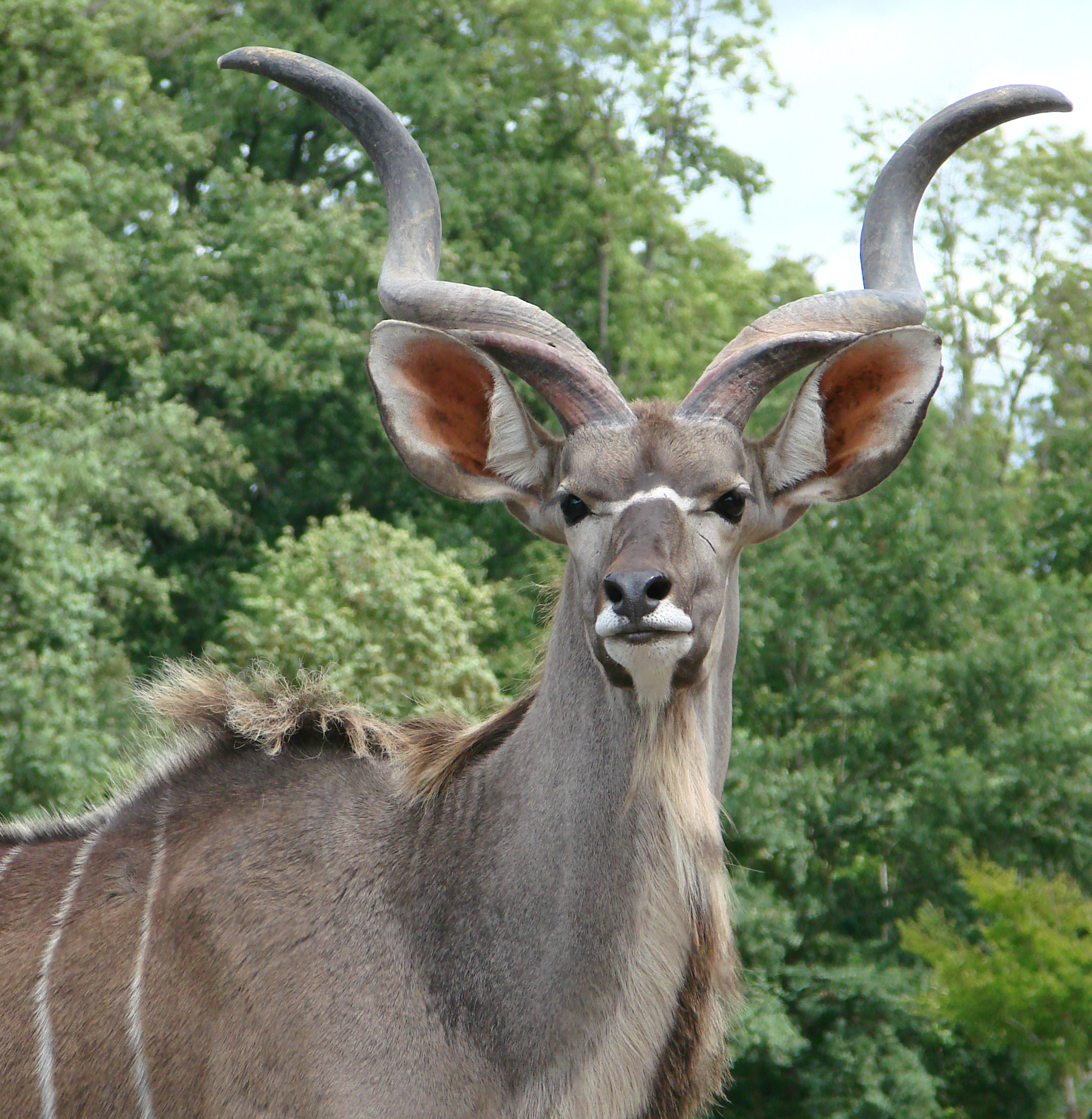 A greater kudu (Tragelaphus strepsiceros), Thoiry zoo.